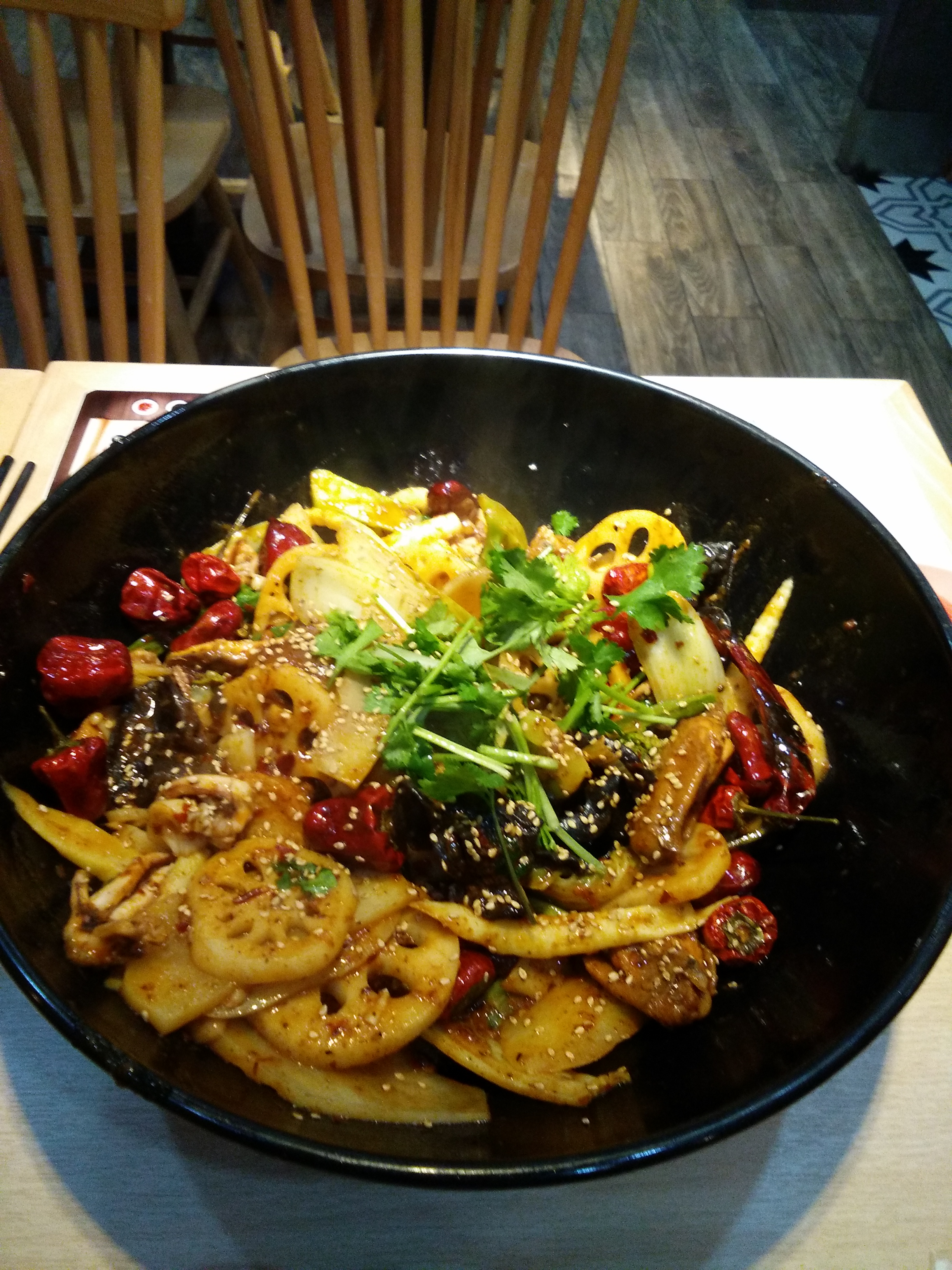 Ma La Xiang Guo